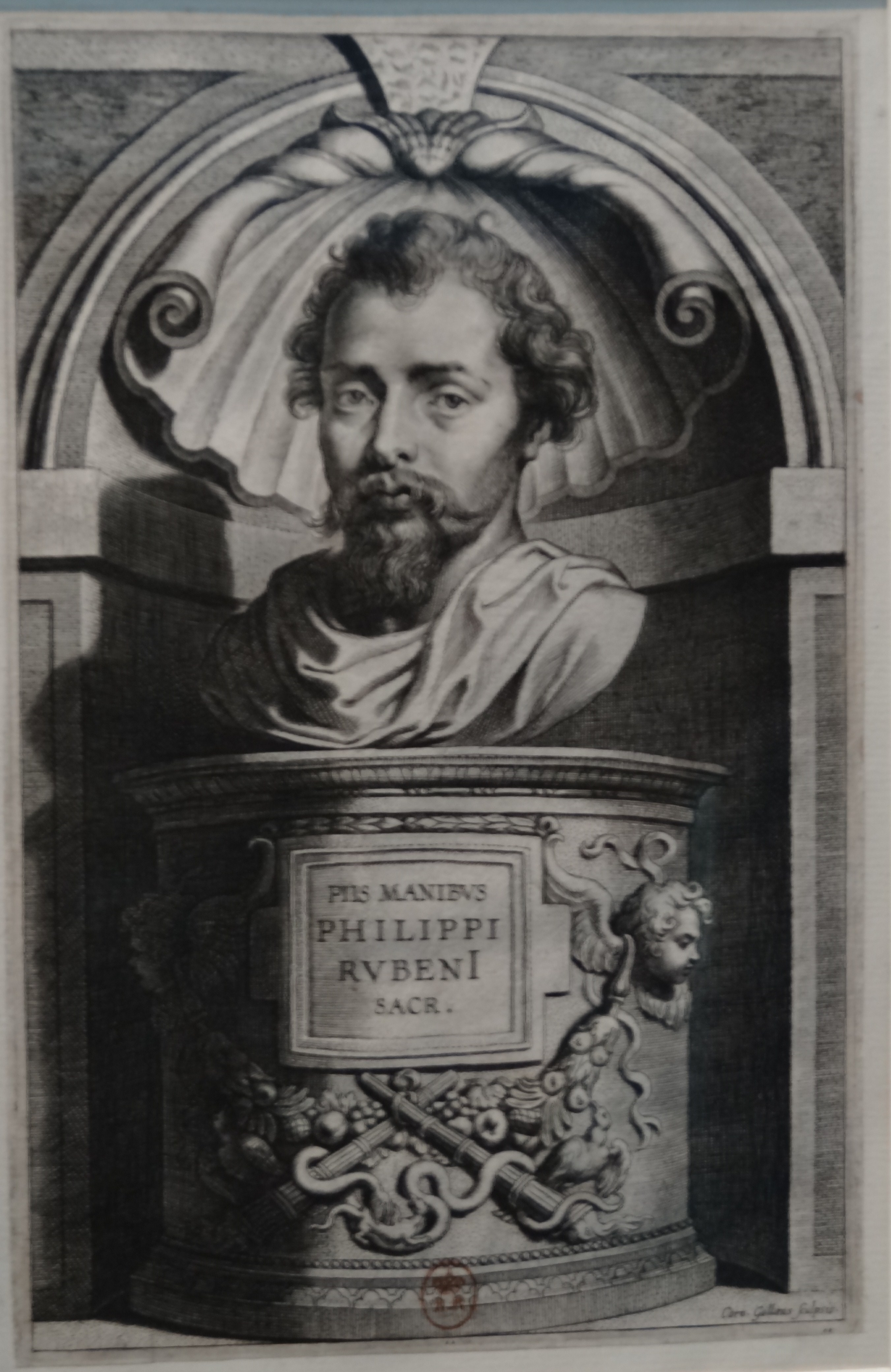 The Europe of Rubens, Louvre-Lens, 22 May 2013–23 September 2013